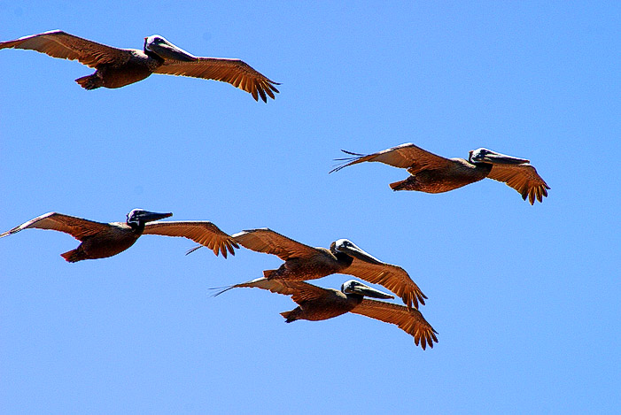 California brown pelicans fly in formation